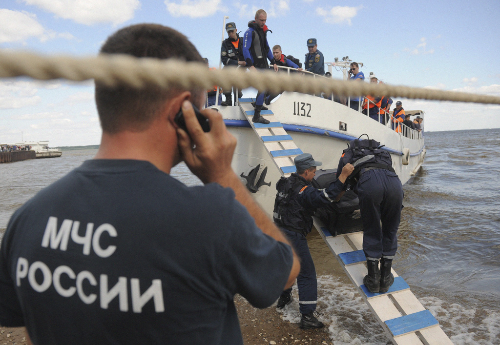 “Operation at the site where the ship \“Bulgaria”sank on the Volga”. Emergency Situations Ministry personnel unload equipment from a ship that is involved in the search of the site where the ship "Bulgaria" sank in the Kuibyshev Reservoir.